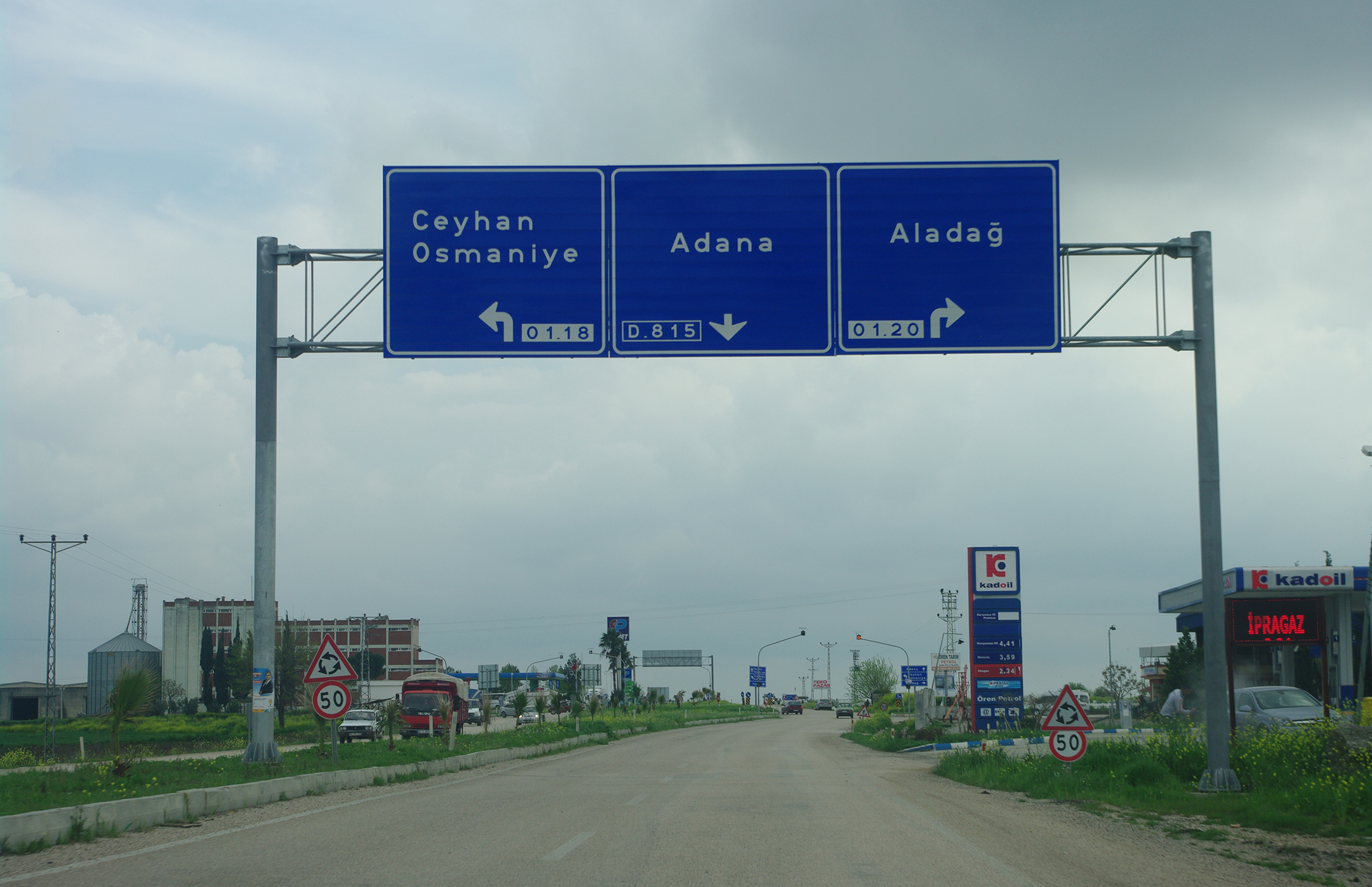 A road sign on the Road 815 (Adana - Sivas State Road). İmamoğlu, Adana - Turkey.